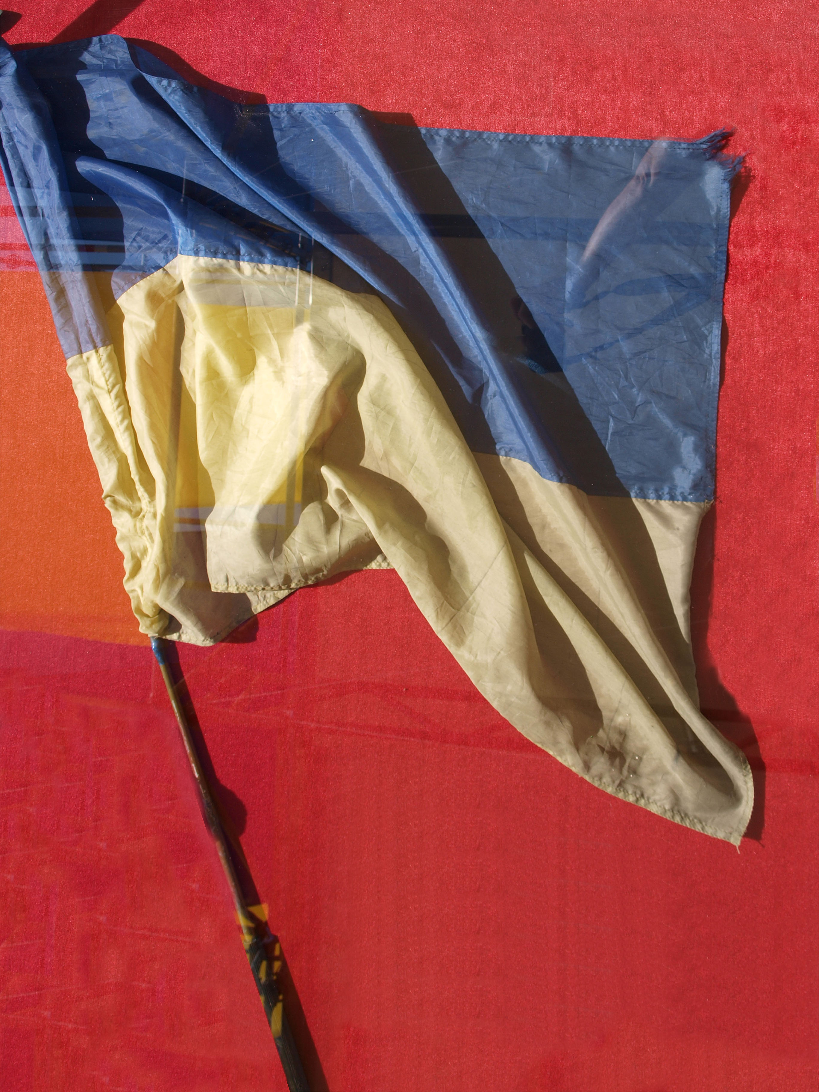 Exhibition Ukrainian flags-relics at St. Sophia Square in Kyiv (23-25 August 2015)